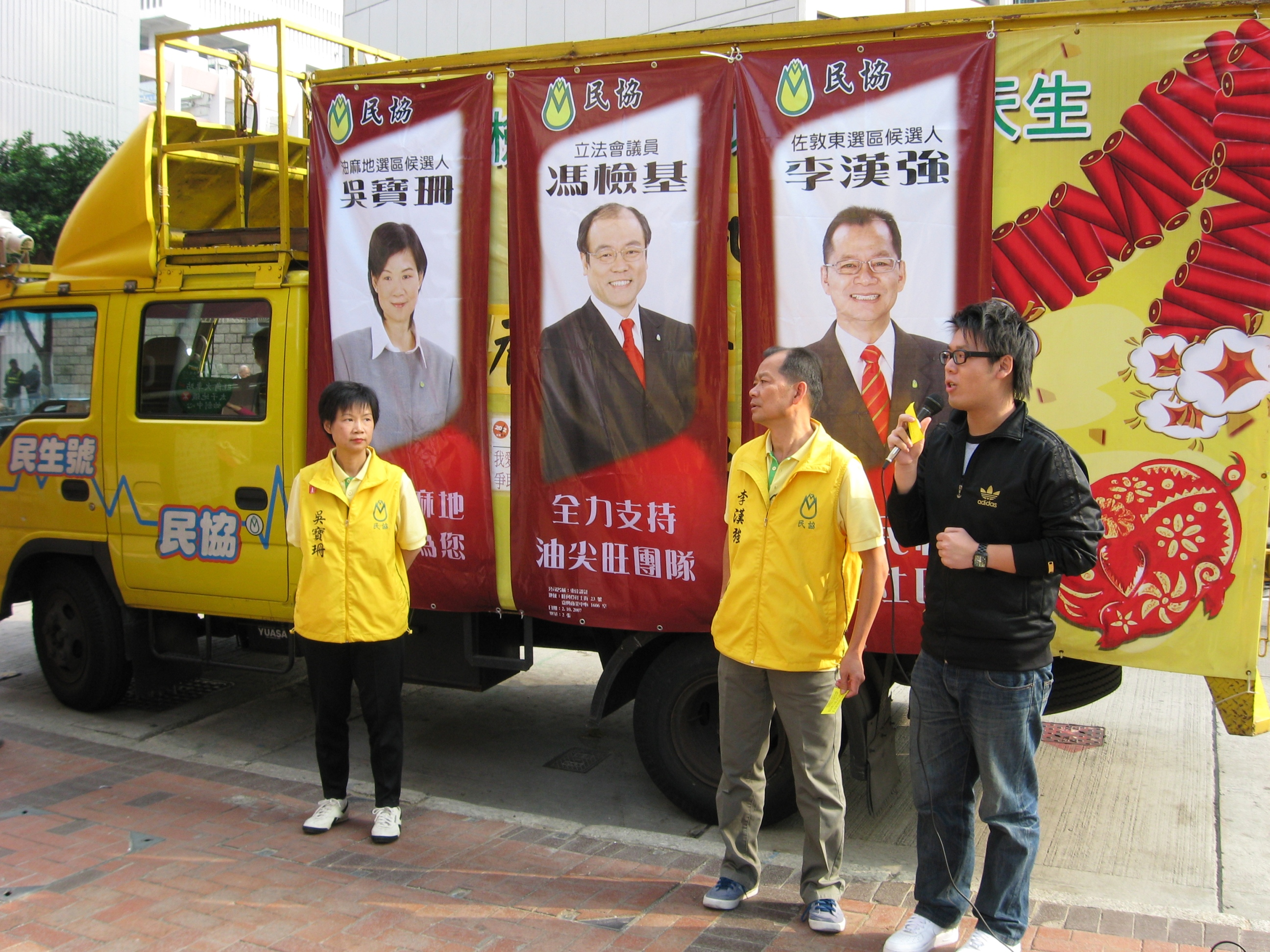 Election campaign by Hong Kong Association for Democracy and People's Livelihood